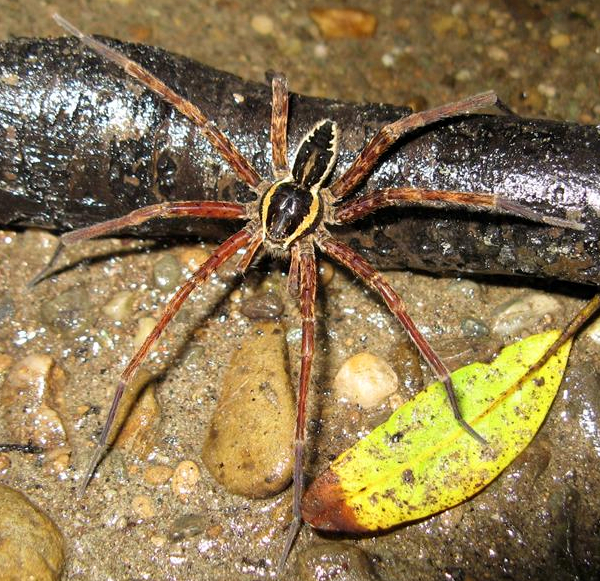 Male Dolomedes dondalei, Mangaio Stream, Whanganui National Park. Photo by Stella McQueen